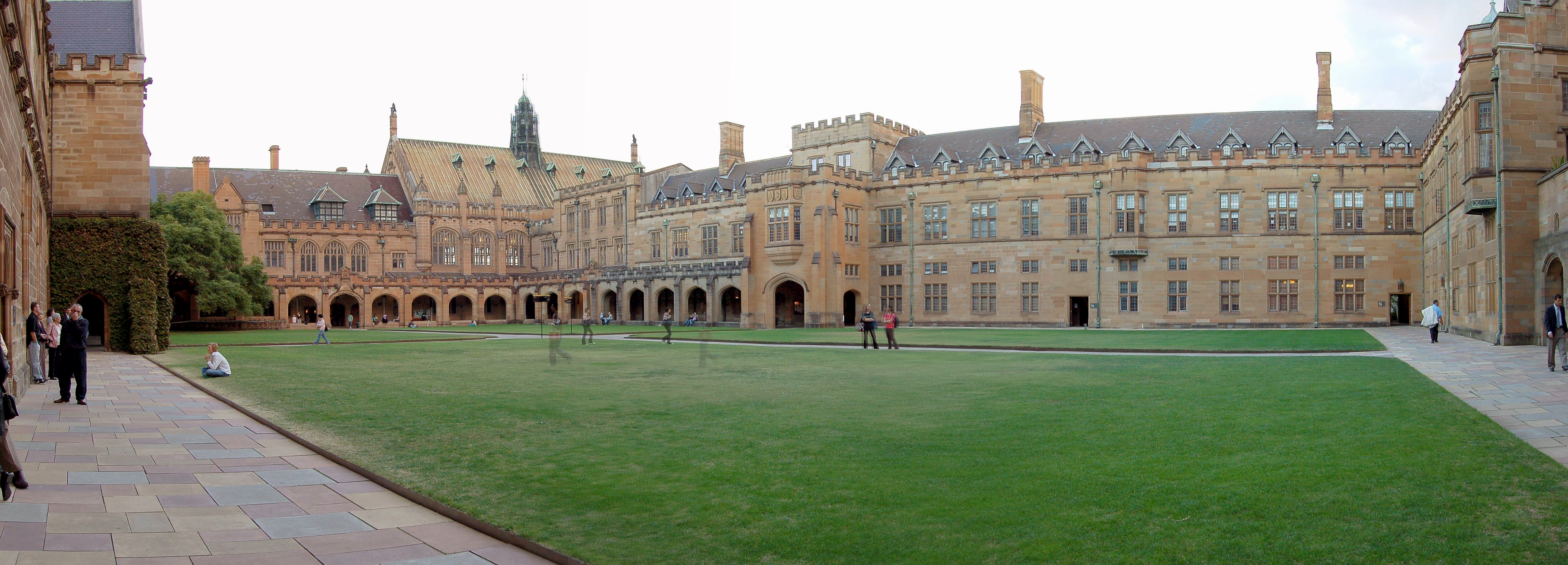 Quadrangle, University of Sydney, Australia, 2006Esperanto: La kvarangulaĵo de la Universitato de Sidnejo.